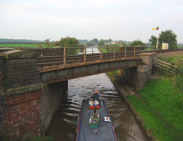 Edleston Railway Bridge over Shropshire Union Canal, Edleston, near Nantwich, Cheshire